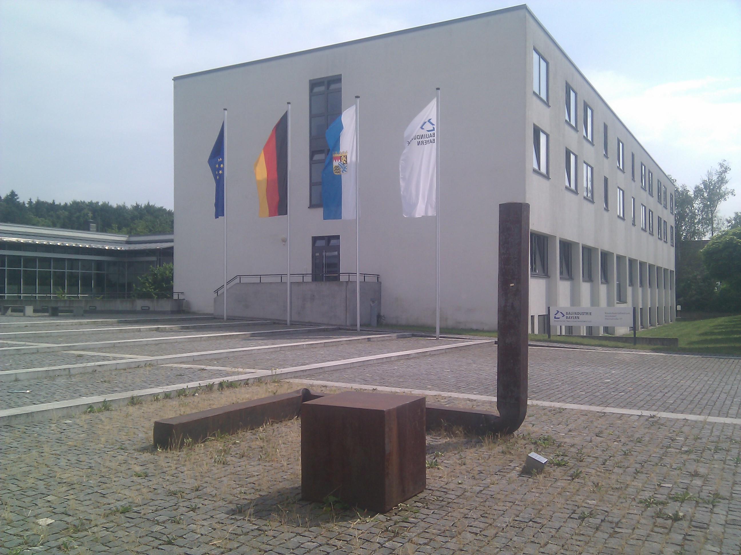 Alf Lechner: Line, Körper, Raum. Forged steel, 1998. In front of Lehrwerkstätte des Bayerischen Baugewerbeverbandes, Heimstraße, Stockdorf.